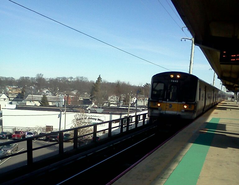 A 12:15 pm westbound train arrives at Lindenhurst Station along the Babylon branch. This train terminates at Penn in Manhattan.